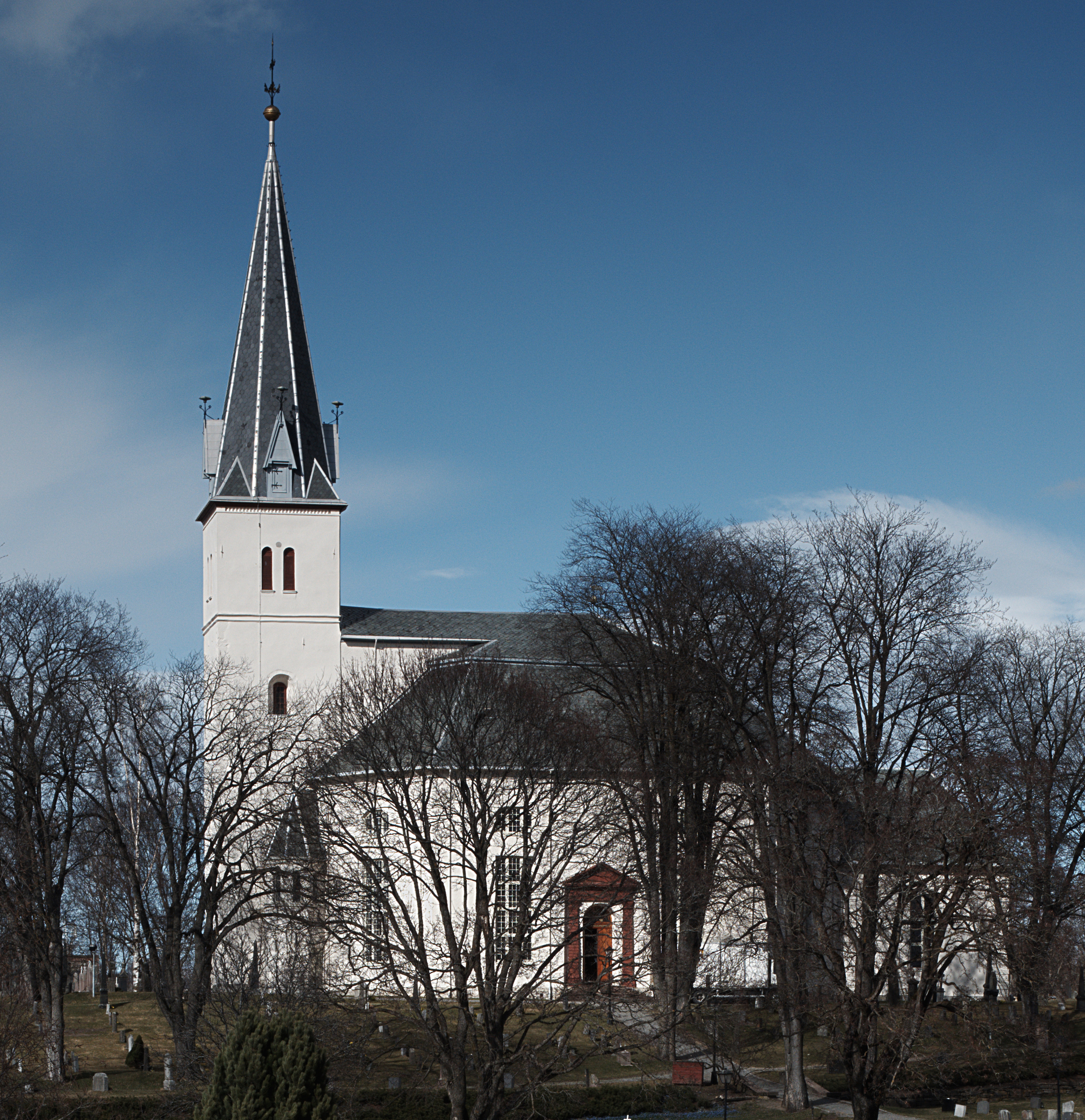 Vang Church (Norway, Hamar, Ridabu) from south